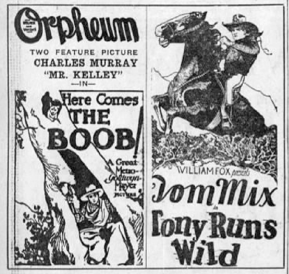 Orpheum Theater advertisement for the two American films The Boob (1926) and Tony Runs Wild (1926), from 13 Aug. 1926 Morning Call, Allentown PA. The reference above the ad for The Boob to Charles Murray, an actor in that film, as "Mr. Kelly" apparently refers to the film titled The Cohens and Kellys that Murray had been in that was released earlier in the year.